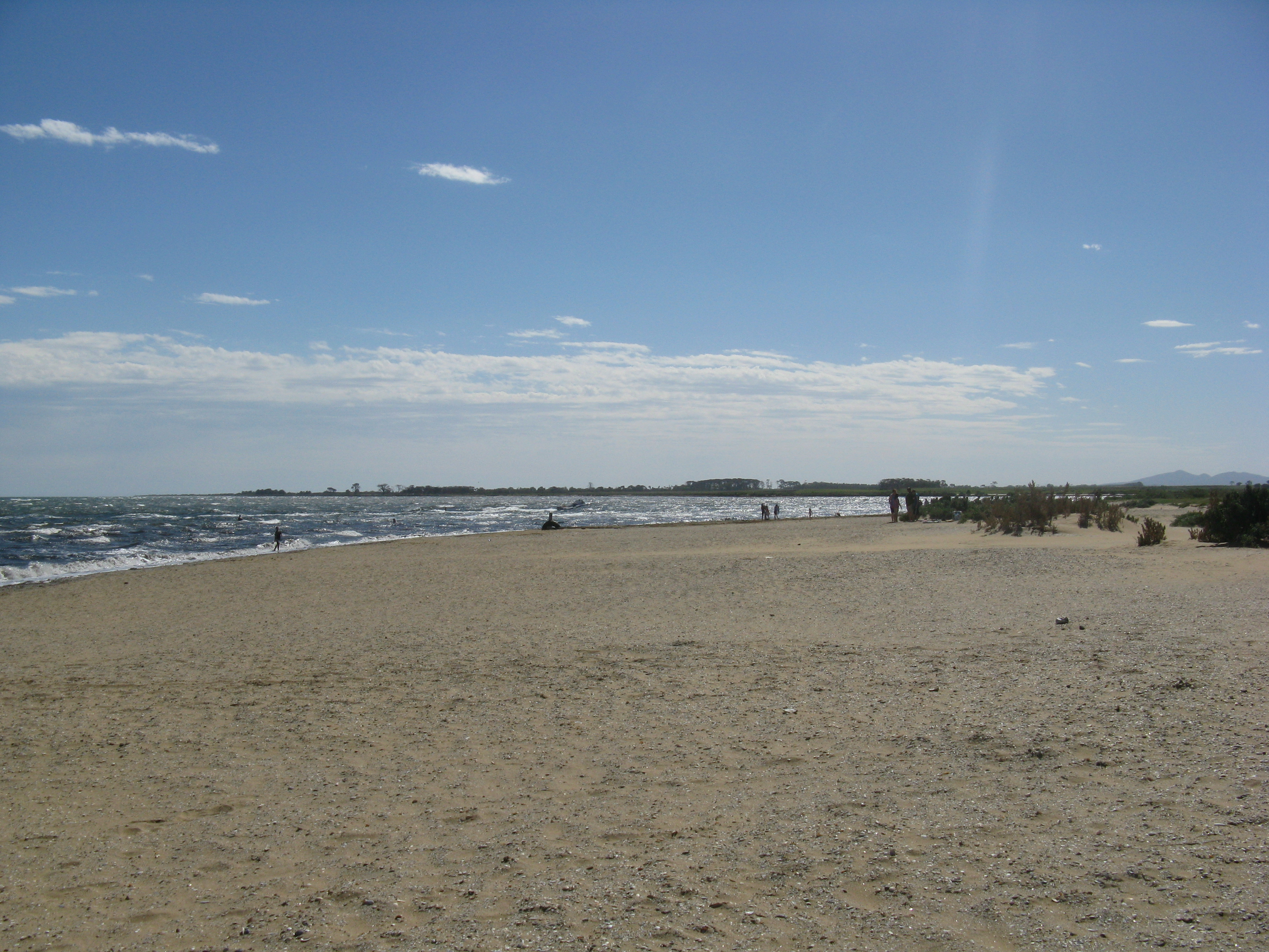 Photograph of Werribee South beach